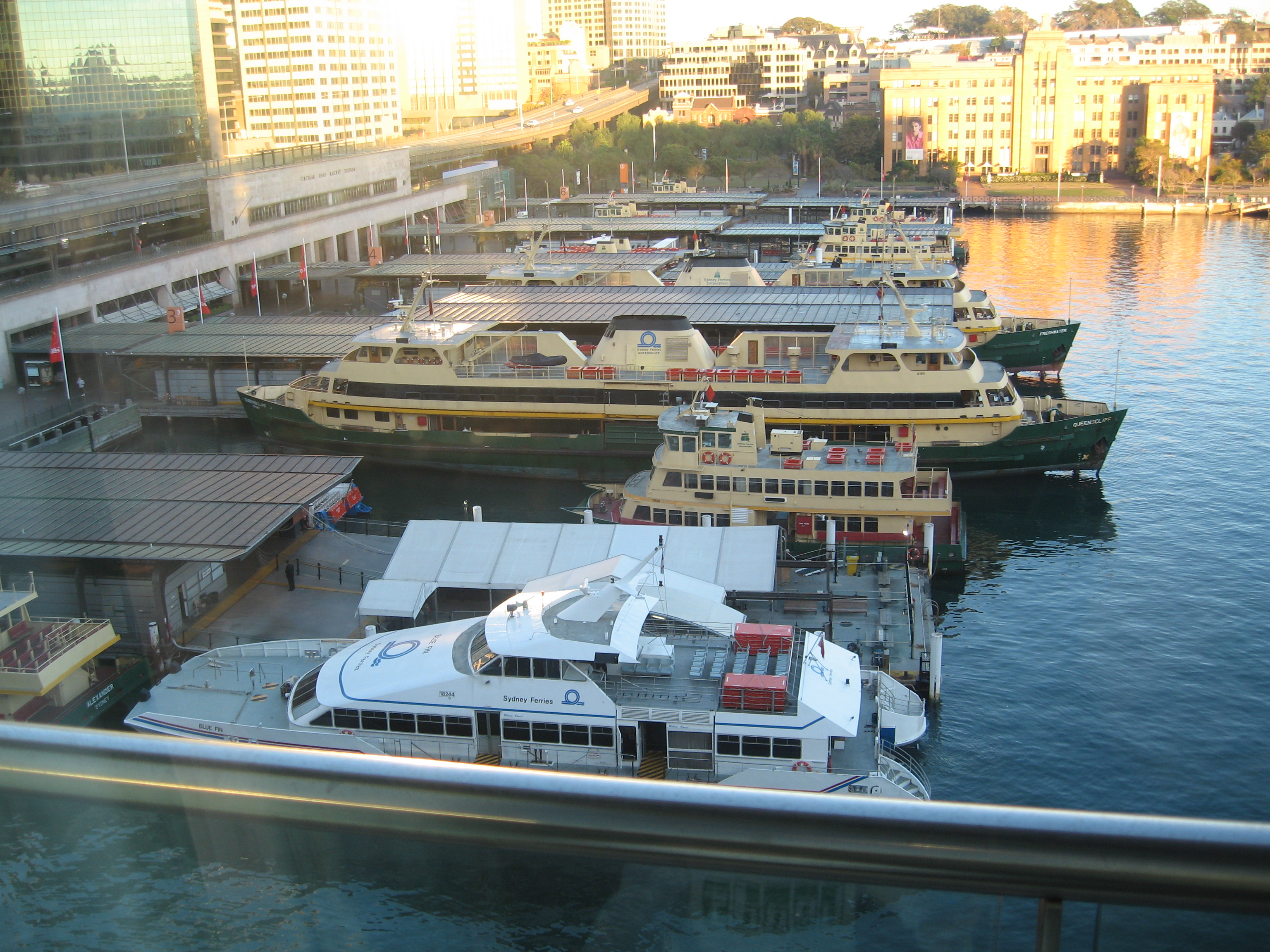 Sydney Ferries fleet at dawn: A range of Sydney Ferries, Circular Quay,(Circa 2004-5). Some are displaying the STA logo while the others are using the then new SFC logo. Note the two Freshwater Class ferries at Wharf 3 (this rarely occurs) and the now decommisoned "Blue Fin" JetCat at wharf 2